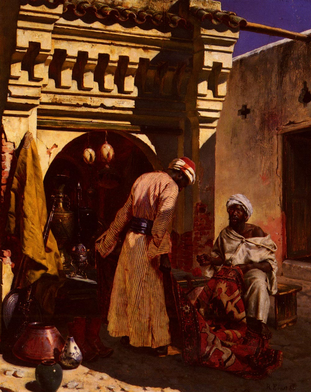 The Rug Merchant